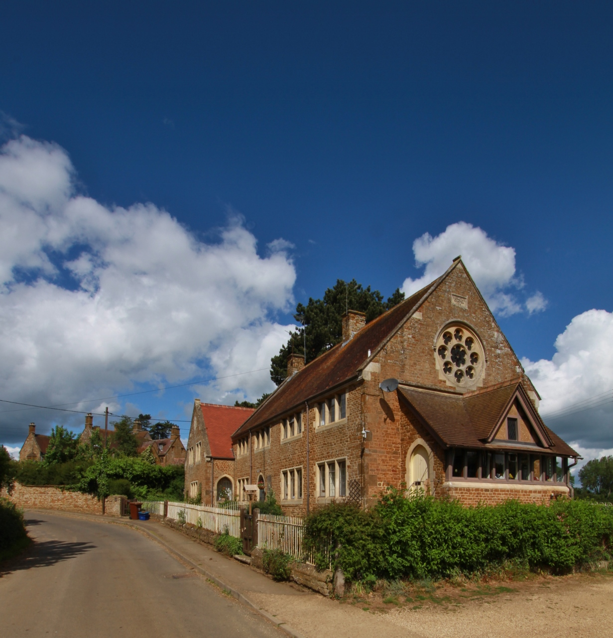 Former Wesleyan chapel in Upper Wardington, Oxfordshire, seen from east-southeast, with (left) Wardington Manor house in the background